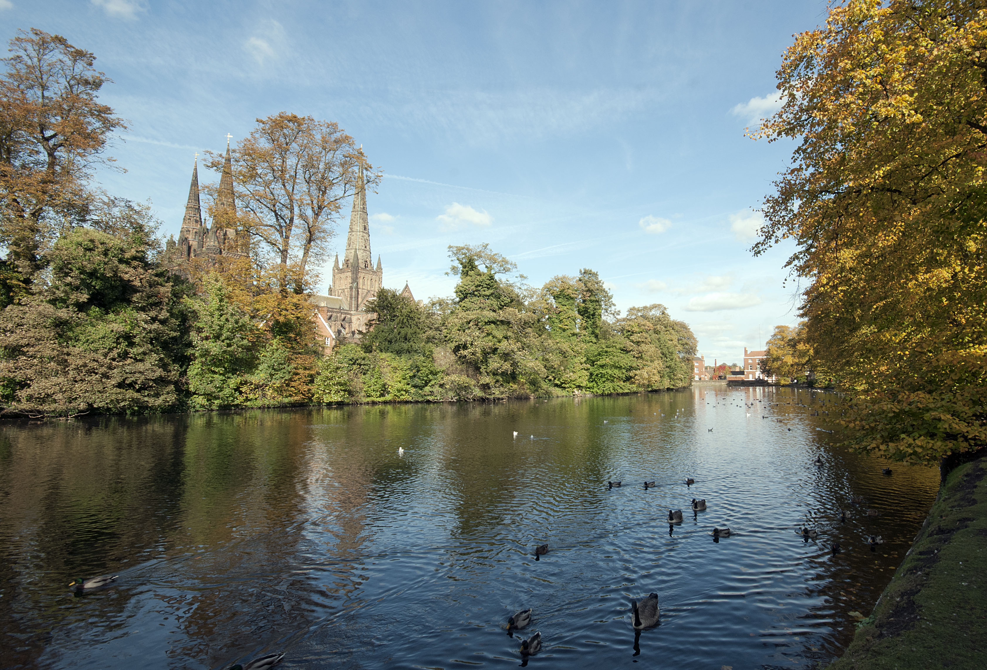 Minster Pool, Lichfield in Autumn 2009 as viewed from its southern bank.